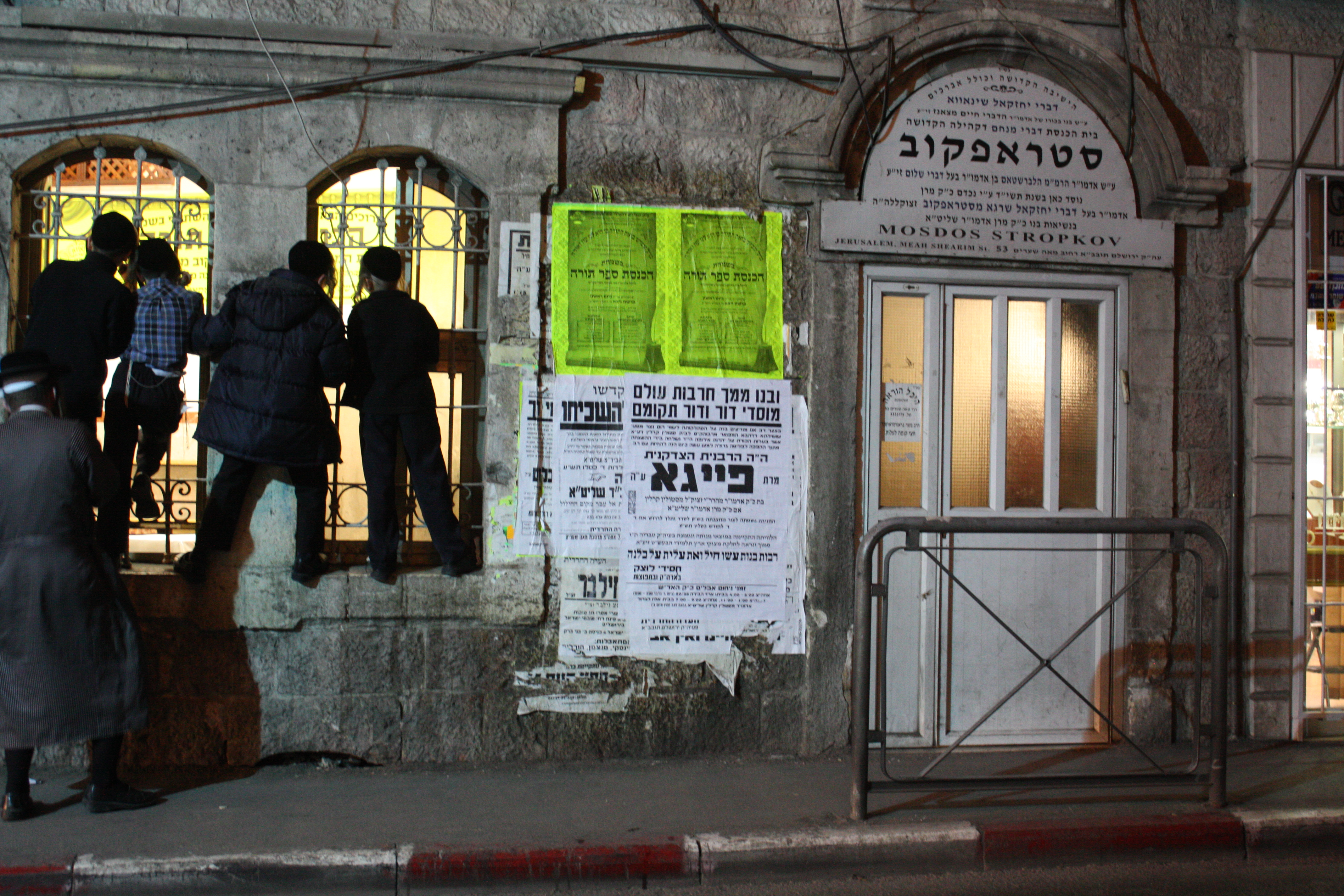 Jerusalem, Mea Shearim street 53 - 08.